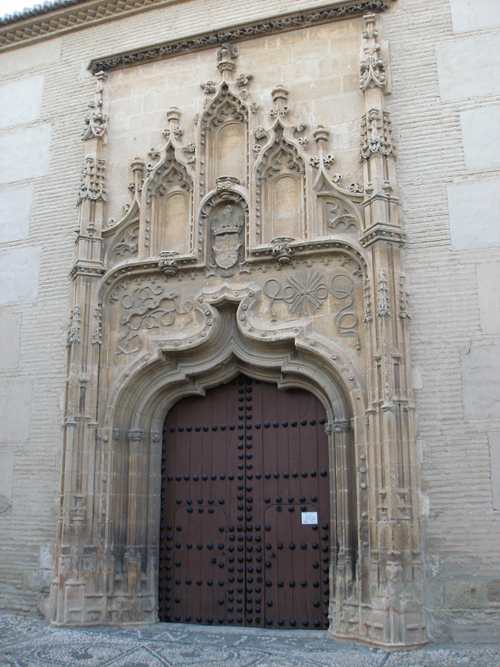 Portal of the church at Santa Isabel la Real Monastery, in Granada, Spain. Isabelline Gothic.